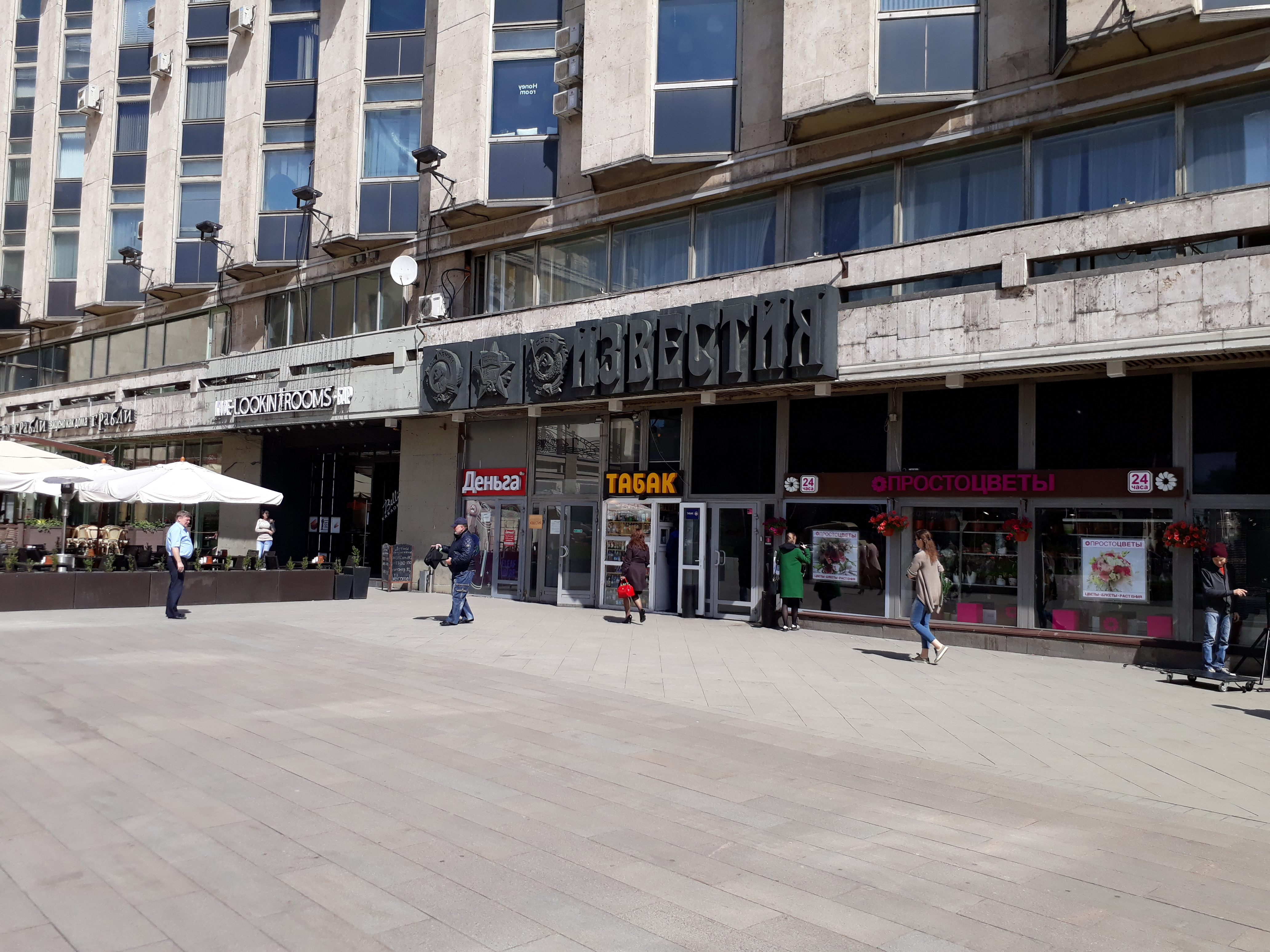 Старое здание газеты "Известия" на Пушкинской площади. 5 мая 2017г.